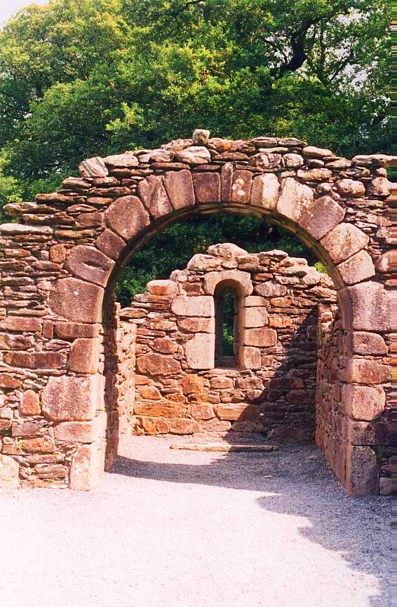 Glendalough, Upper Valley